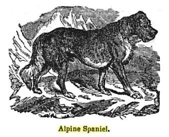 Drawing of the Alpine Spaniel from 1848.